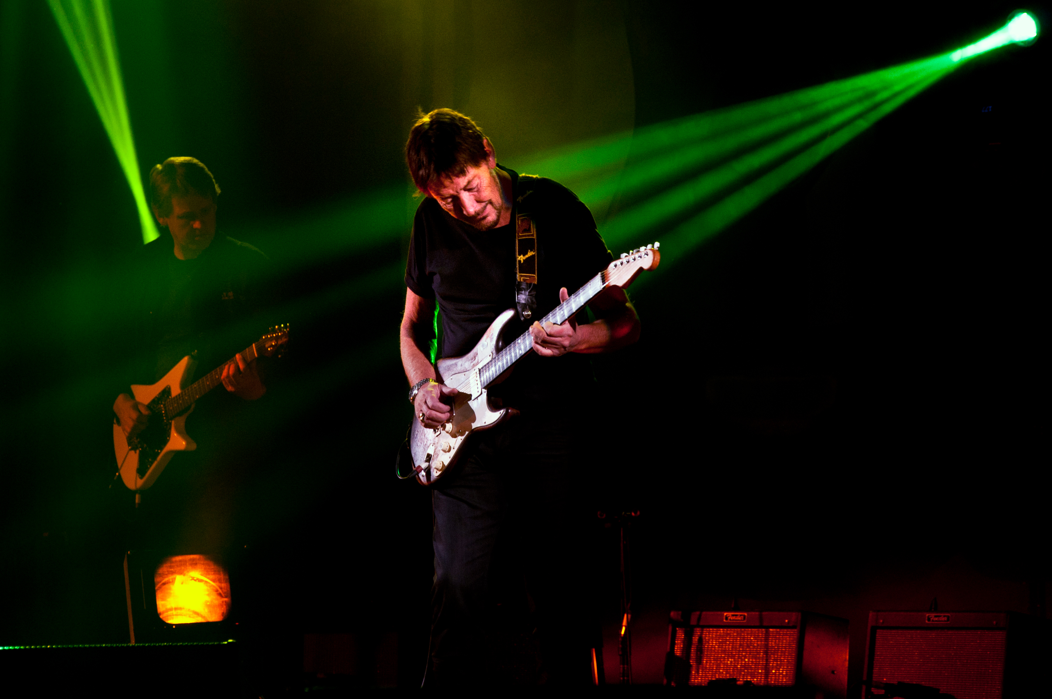 Chris Rea, Concert at Sala Kongresowa, Warsaw, Poland on February 5, 2012 during Santo Spirito Tour